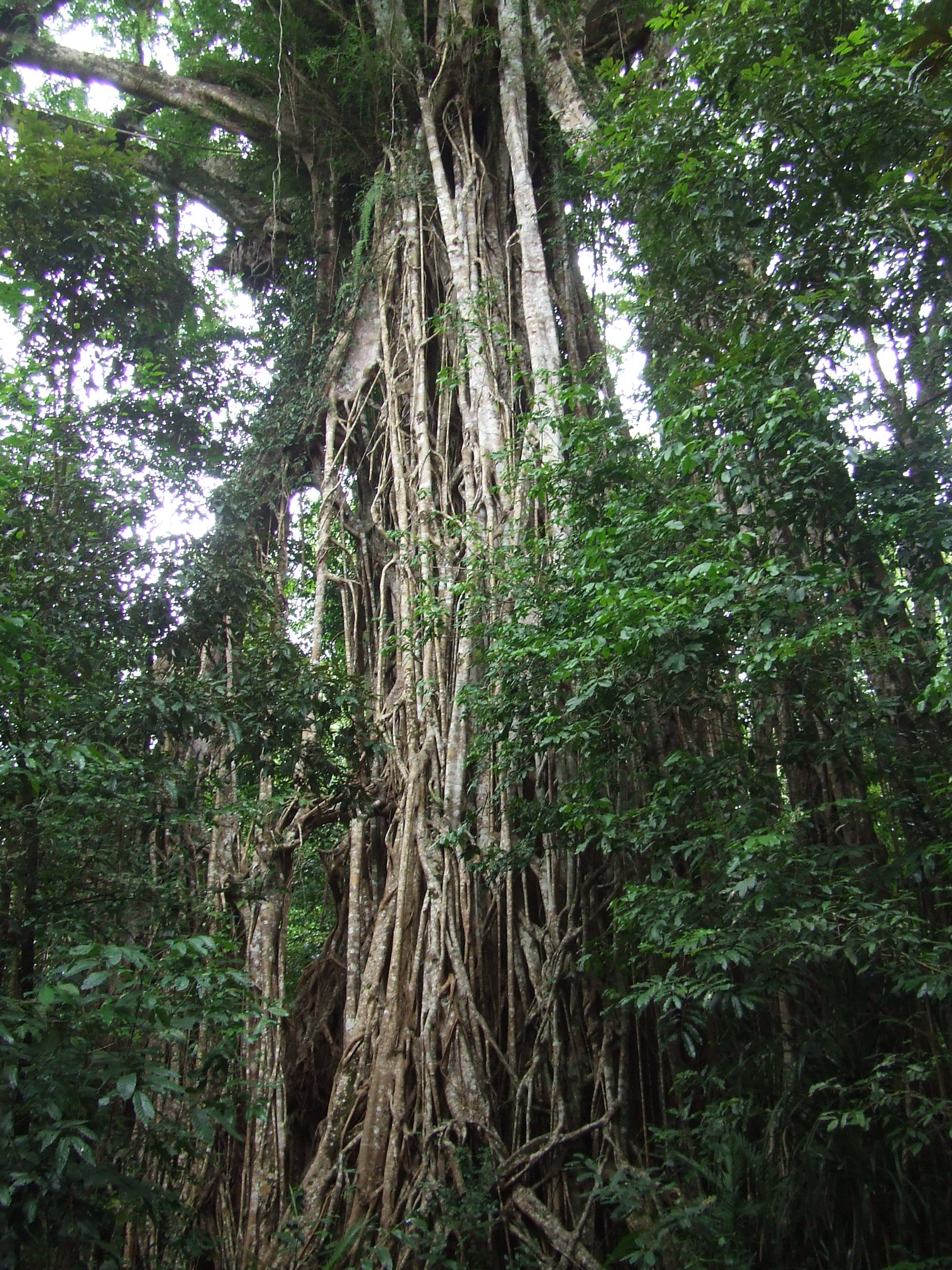 Ficus microcarpa. Located near Lake Barrine. Not to be confused with the Curtain Fig tree at Yungaburra.